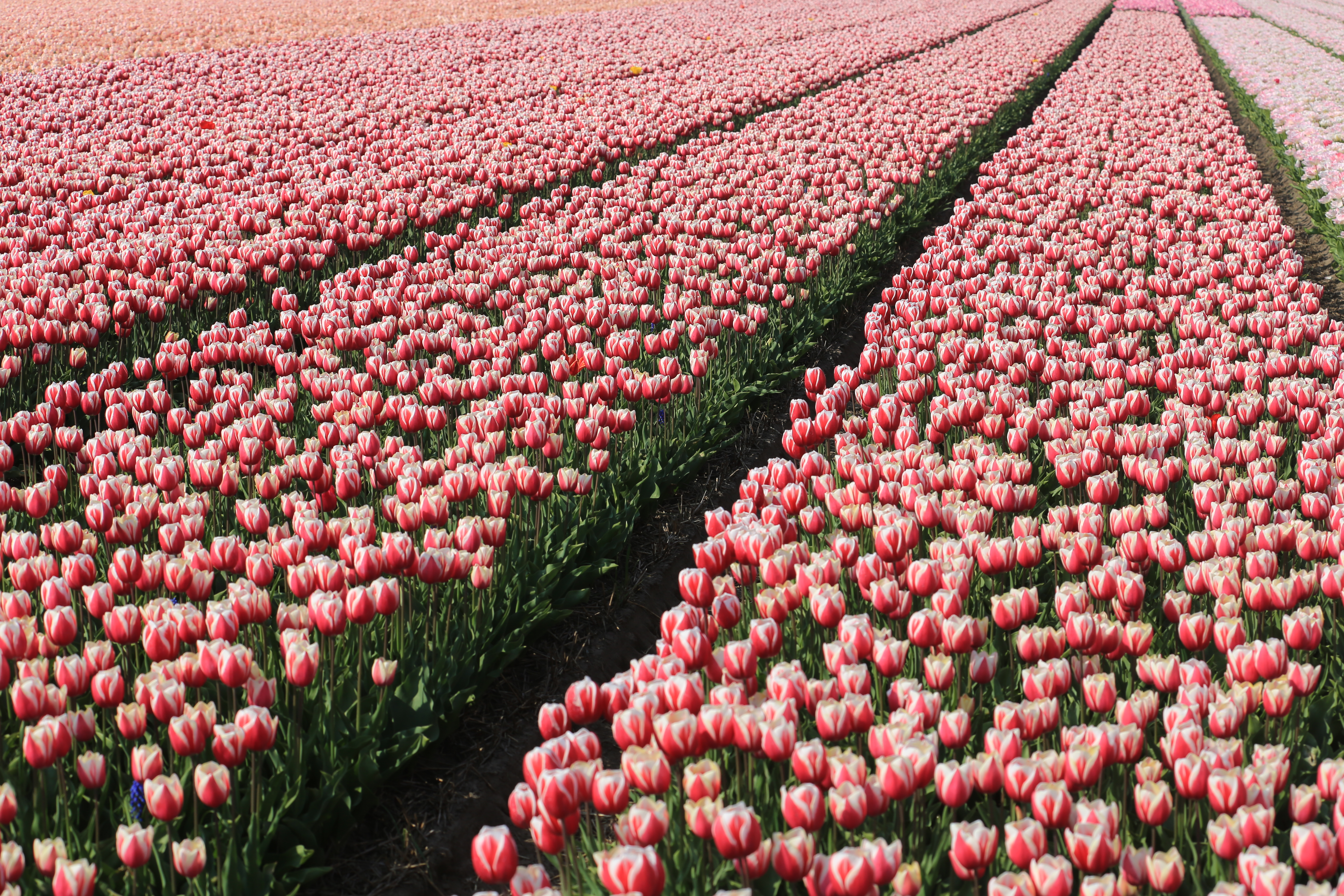 Farm in North Holland with flowers in bloom. Tulips - Guus Papendrecht.